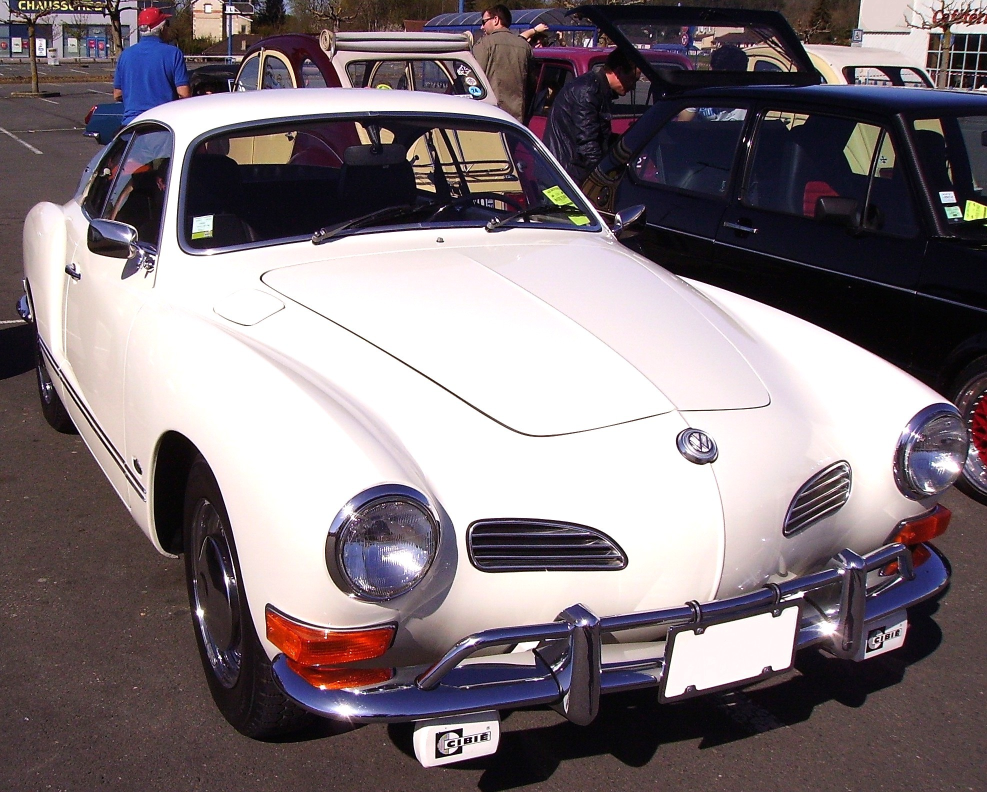 Volkswagen Karmann Ghia (Type 14).